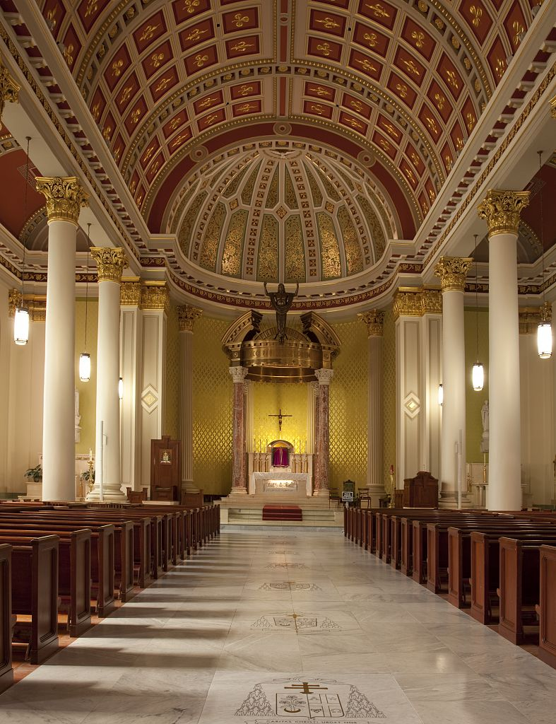 Architectural detail of interior, Cathedral of the Immaculate Conception, Mobile, Alabama